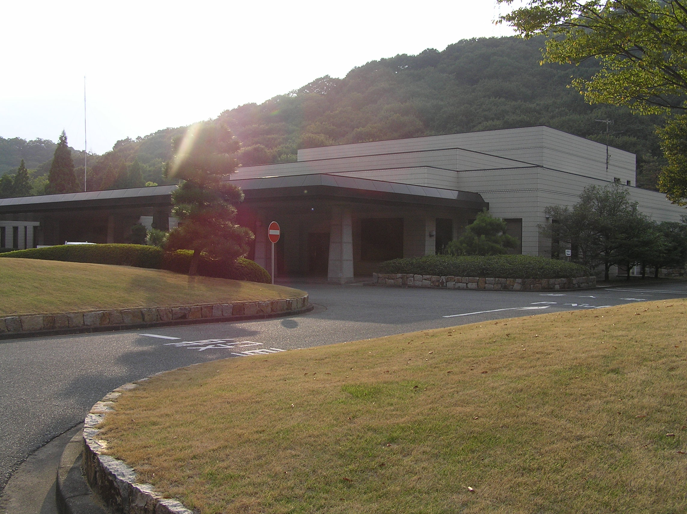 Kakogawashi-saijo